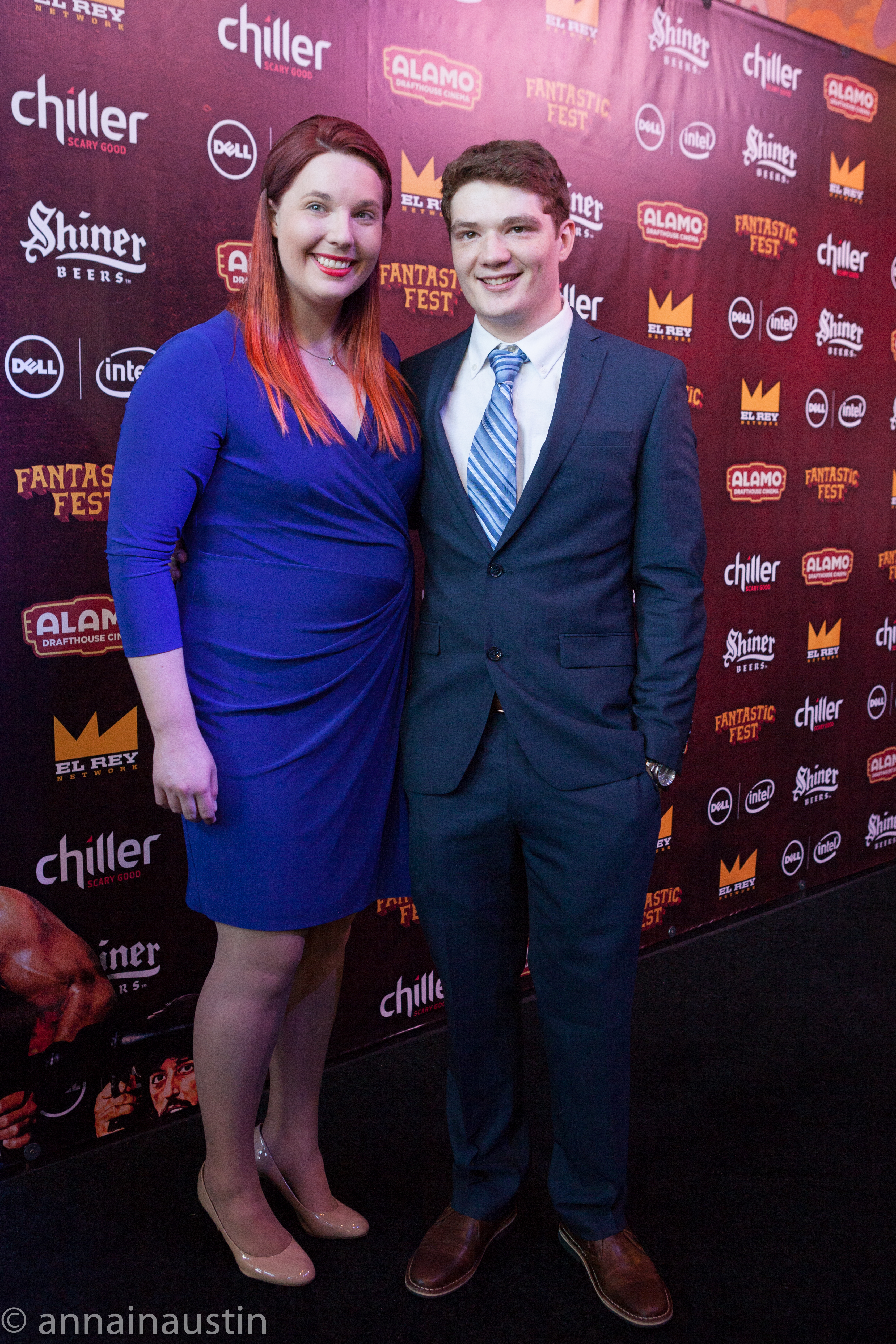 Lindsay and Michael Jones on the red carpet at the Lazer Team premiere at Fantastic Fest 2015.